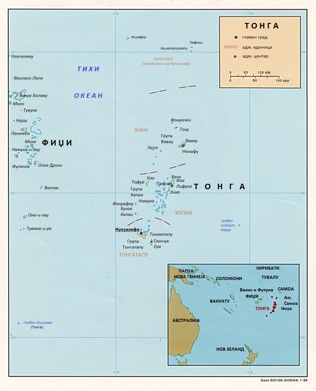 Map of Tonga in Macedonian language.